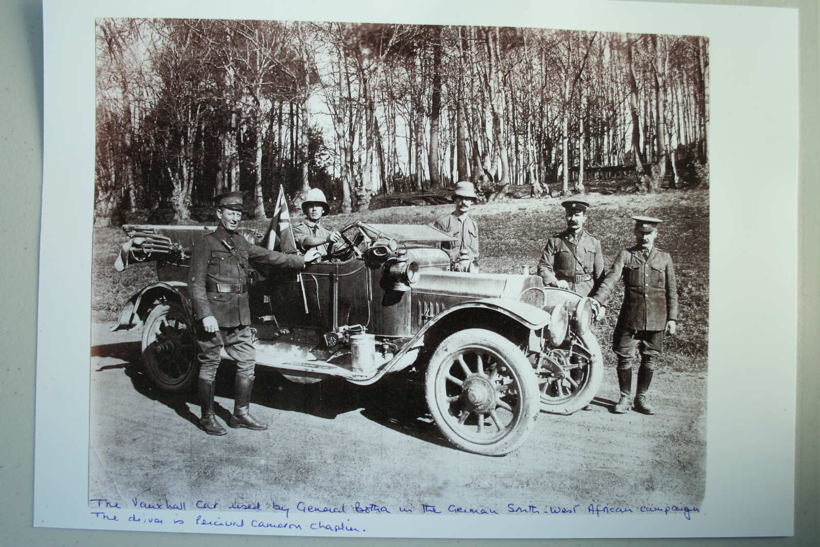 Percival Cameron Chaplin was the uncle of Elisabeth Sturgess, who submitted these items. In 1915 Percy Chaplin captured a German flag in Windhook, Namibia [Windhoek]. The inscription on the flag reads: "This flag I took from the Germans at Windhuk, German South West African Campaign, 1915. P. C. Chaplin (Sgt.). Gen. Botha's Staff". There is also a photograph of General Botha's staff and the car [25 horse power Vauxhall Prince Henry type tourer although it is true General Botha did have a Prince Henry Vauxhall this car is a 20 horsepower Vauxhall touring car of about 1912 (colonial model)], driven by Percival Chaplin. There were two articles published at the time about this, and about the ensign (pennant flag) carried on General Botha's staff car, maybe from February-July 1915. (Botha was a veteran of the Boer wars, fighting with the Transvaal commandos. During the Great War Botha was involved in suppressing the revolt of the Boers. After the First World War Botha briefly led the British military mission to Poland. He was a highly-thought by Winston Churchill for his skills as a general.) - See more at